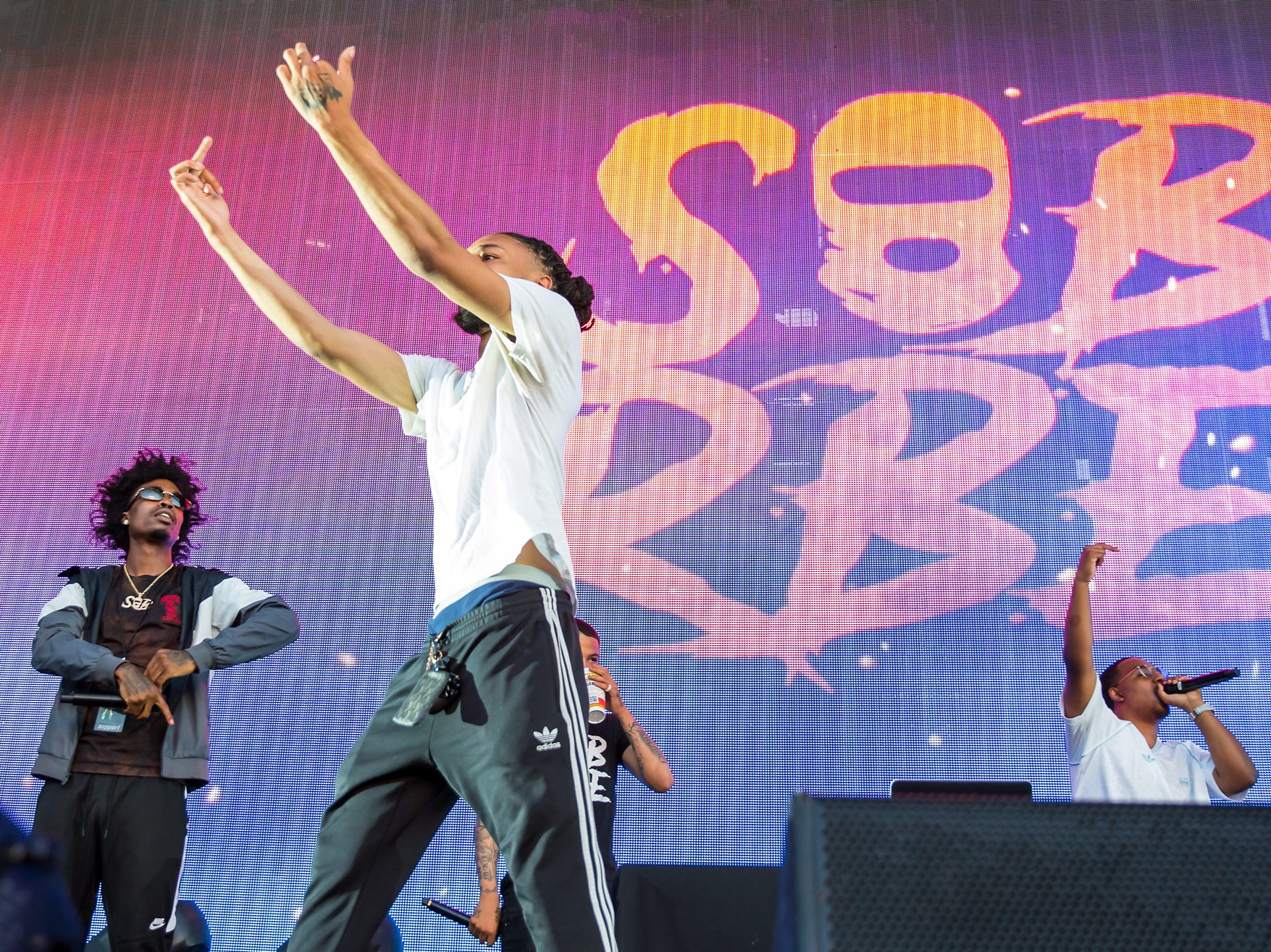 SOB X RBE performing at the Austin360 Amphitheater in Austin, Texas on June 16, 2018.